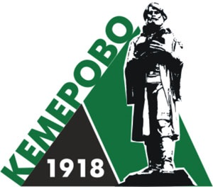 Kemerovo Emblem Mikhail Volkov